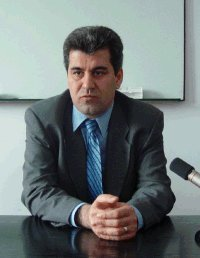 Picture of Bakhtiar Amin, Human Rights Minister in the Iraqi Interim Government, 2004-5